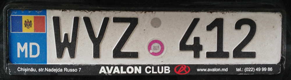 Moldovian license plate.